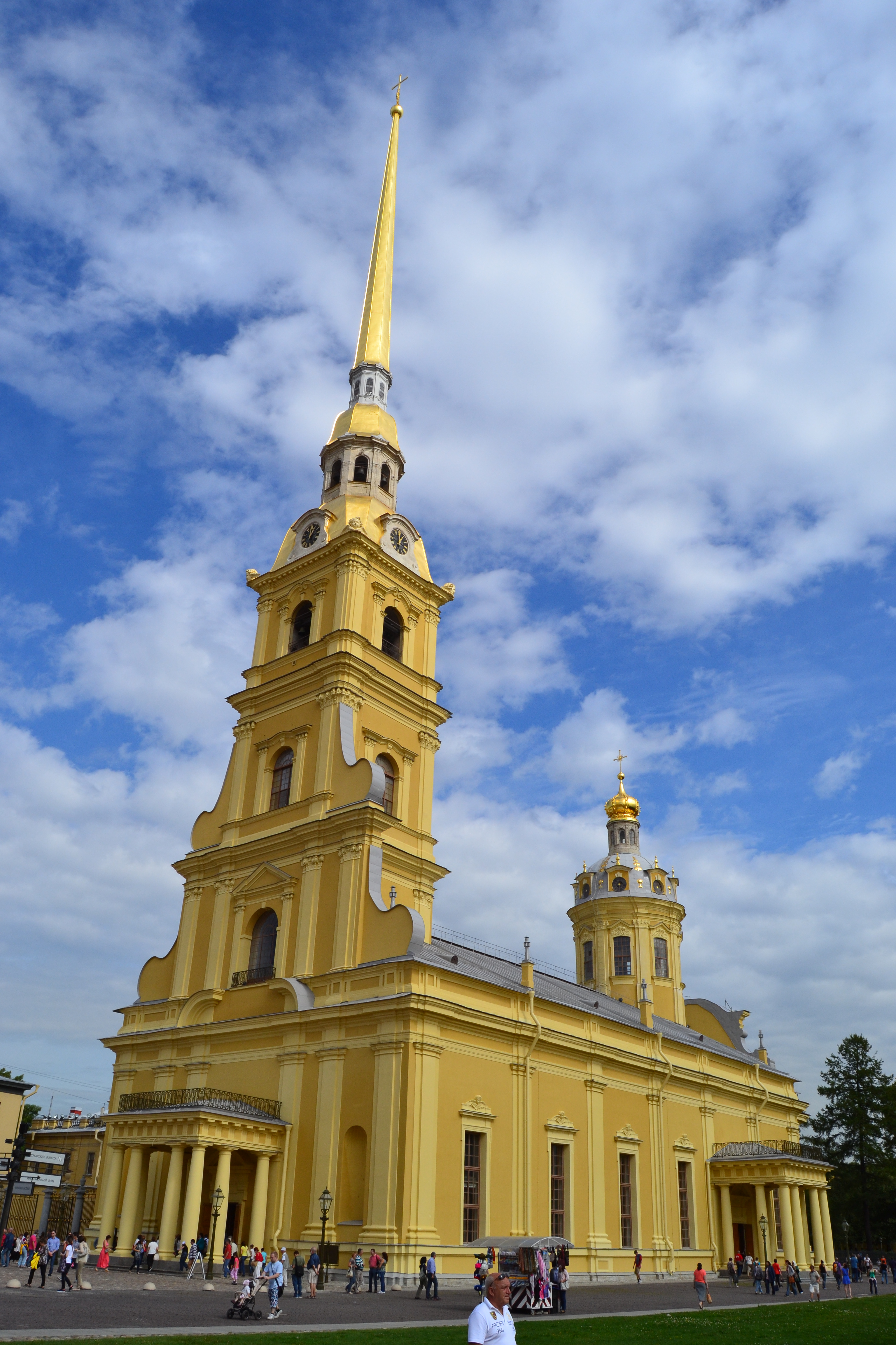 Peter and Paul Cathedral St. Petersburg, August 2013